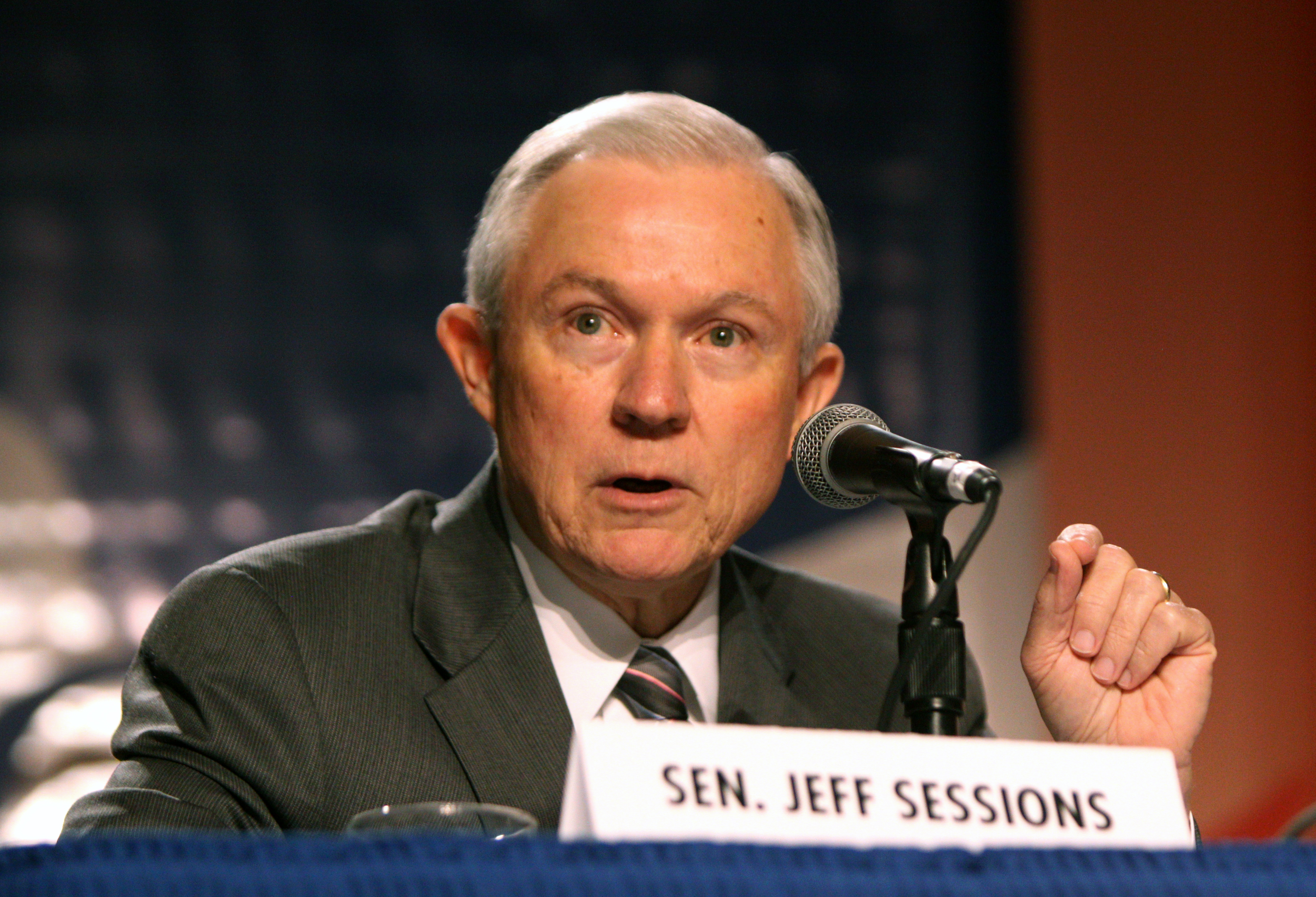 Jeff Sessions speaking at an event in Washington, DC.